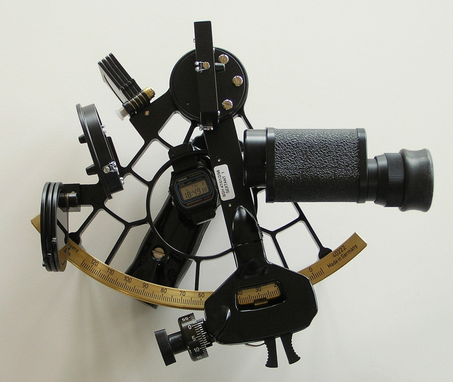 Modern drum sextant.